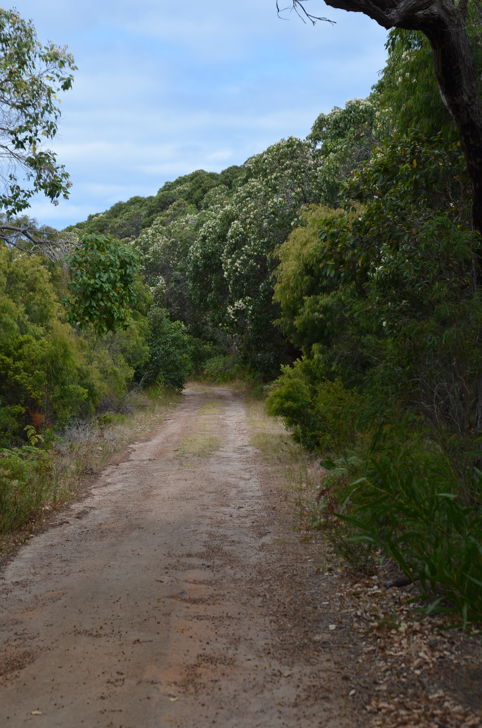 Former railway line formation between the Augusta airport and Flinders Bay - w: Flinders Bay Branch Railway